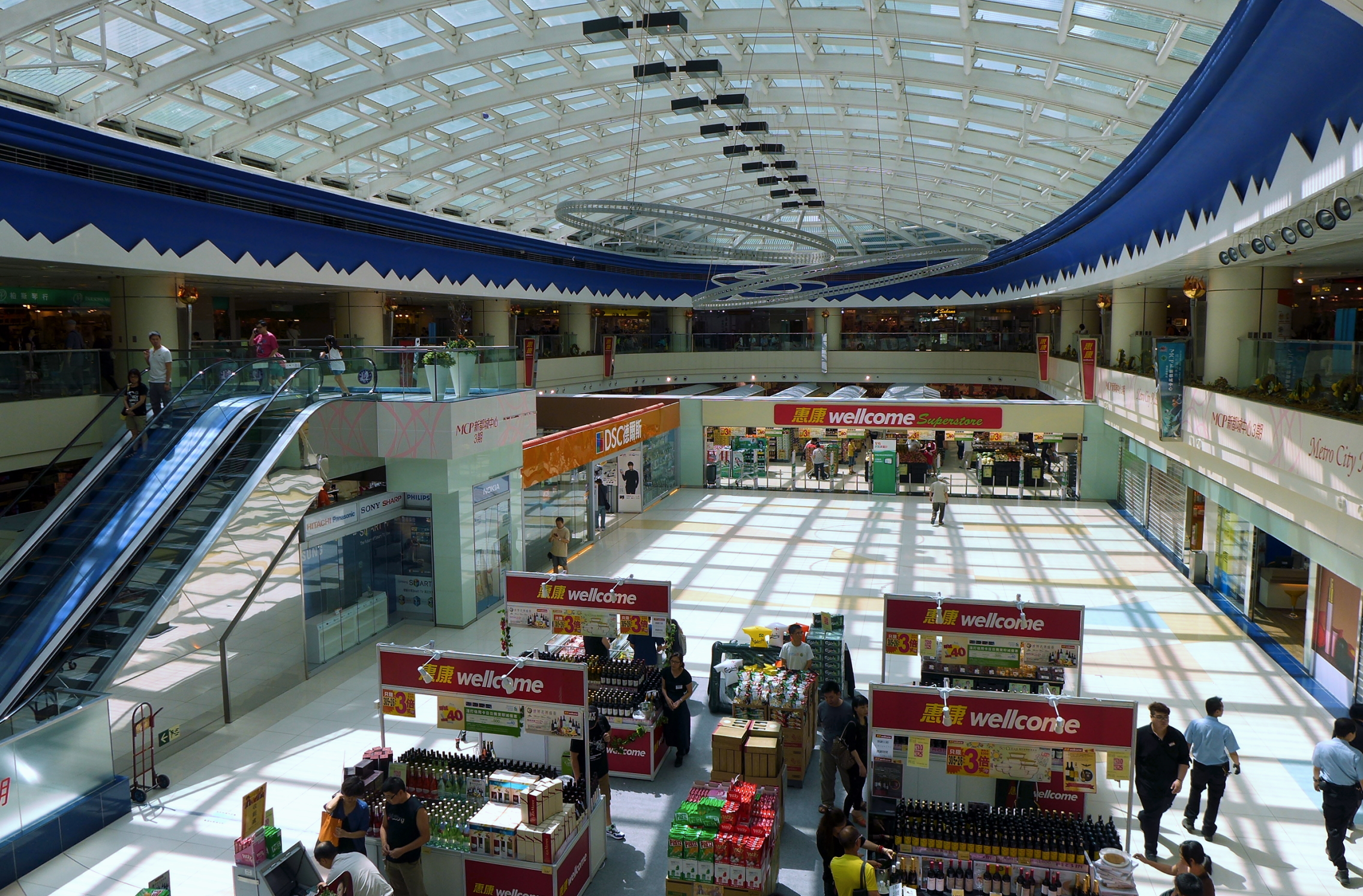 Metro City Phase 3 Main Atrium